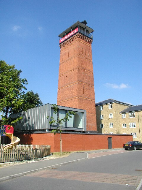 Converted Water Tower, former Brook Hospital. For most of the 20th century there were three busy hospitals on Shooters Hill, one of which was the Brook. Now there's very little of it left. The former water tower has been innovatively converted into a modern dwelling, with superb views from the top over south east London